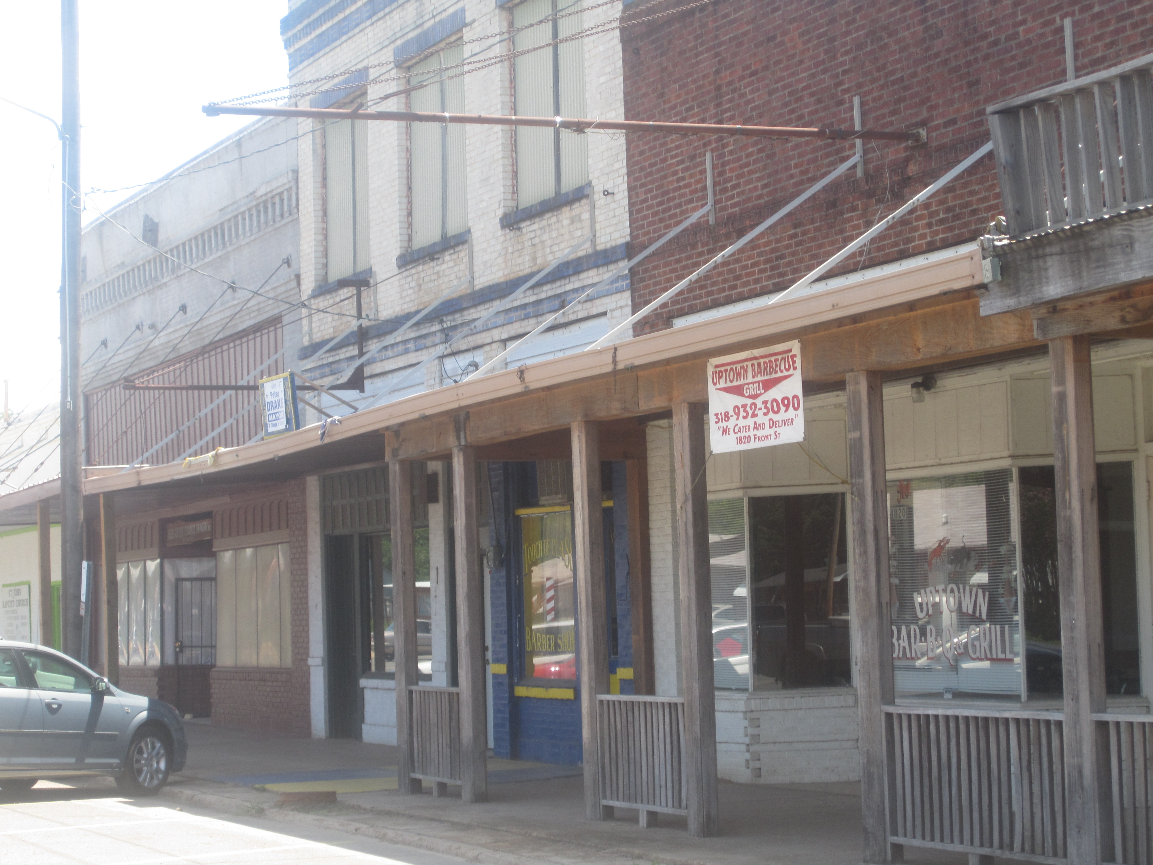 Coushatta, Louisiana streetscape